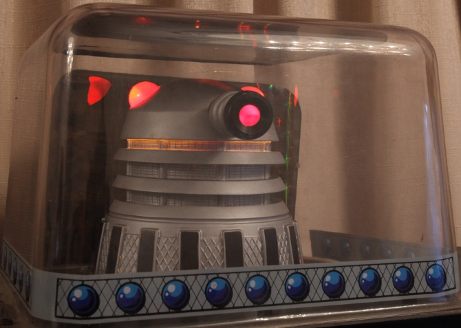 Oblique full shot of the Dalek on top of a "Doctor Who" pinball